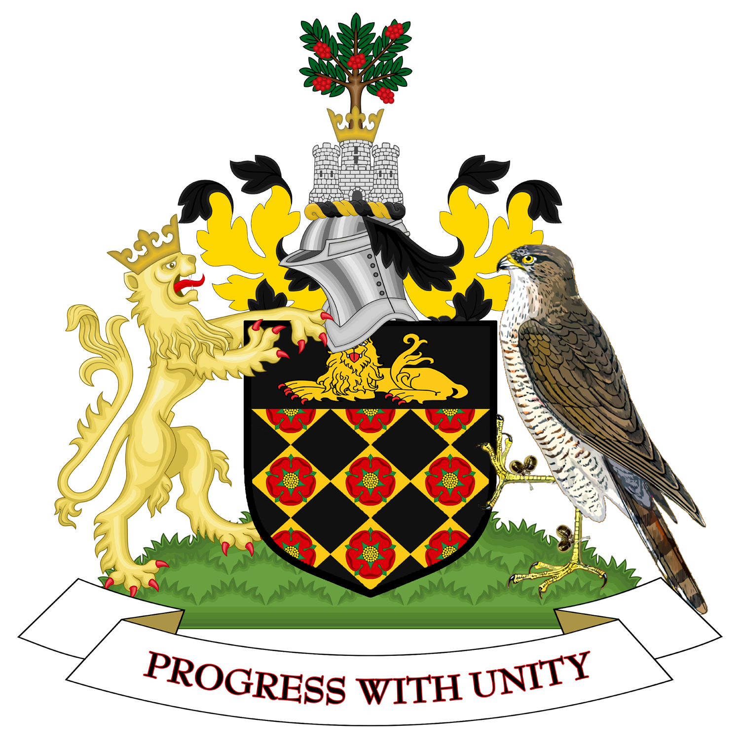 The Coat of arms of Wigan Metropolitan Borough Council, the local government authority for the Metropolitan Borough of Wigan, in Greater Manchester, England. The blazon is:ARMS: Lozengy Or and Sable each Lozenge Or charged with a Rose Gules barbed and seeded proper on a Chief Sable a Lion couchant guardant Or.CREST: On a Wreath of the Colours in front of a Mountain Ash (Wiggin Tree) fructed proper a Castle triple towered Argent the centre tower ensigned by an Ancient Crown Or.SUPPORTERS: On the dexter side a Lion crowned with an Ancient Crown Or and on the sinister side a Sparrowhawk close proper belled Or the whole upon a Compartment representing a Grassy Mount proper.